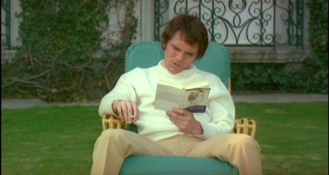 Screenshot from Teorema directed by Pier Paolo Pasolini